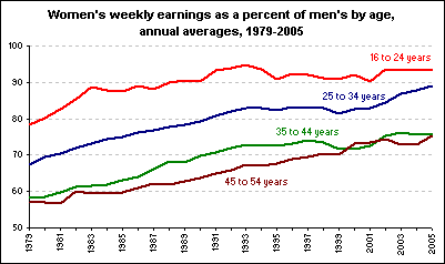 Women's weekly earnings as a percentage of men's by age, 1979-2005 annual averages. These data on earnings are from the Current Population Survey. The ratios in this article are based on median usual weekly earnings of full-time wage and salary workers. For more information see "Highlights of Women’s Earnings in 2005," BLS Report 995 (PDF 290K).